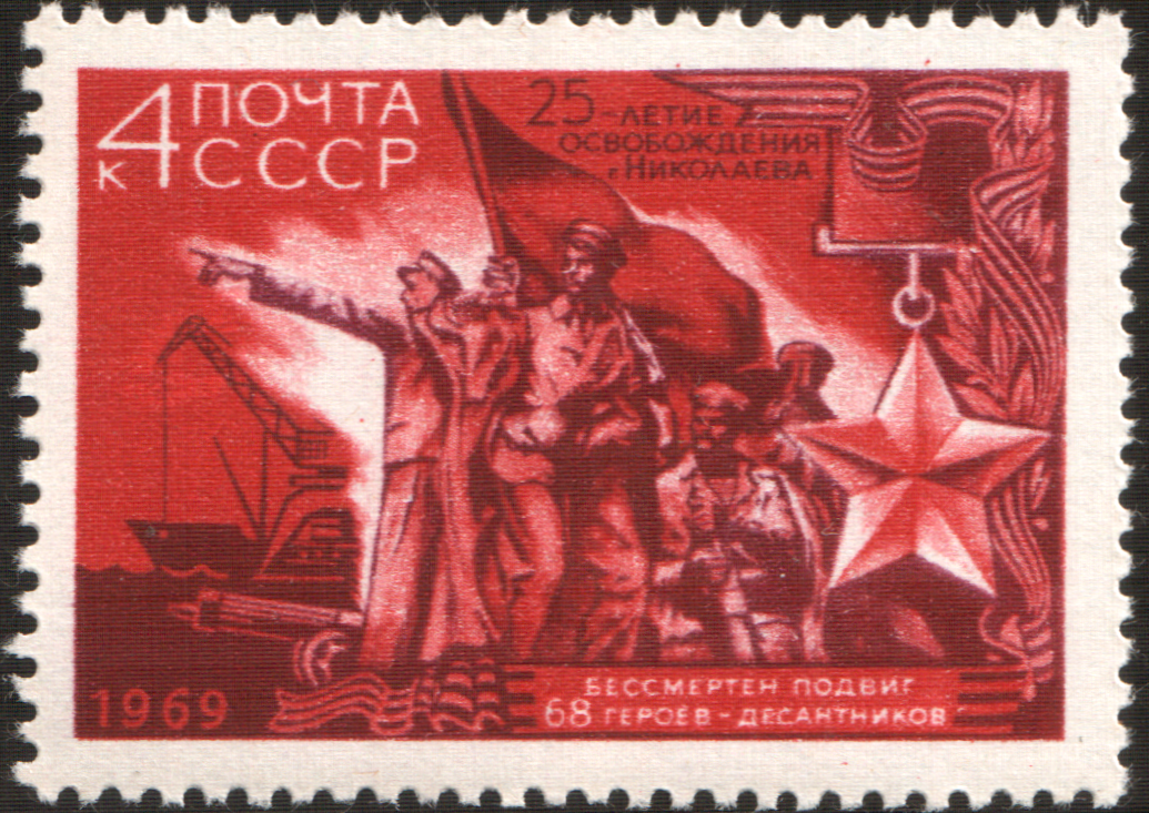 USSR stampː Liberation Monument to 68 Heroes. Seriesː 25th Anniversary of the Liberation of Mykolaiv from the Germans